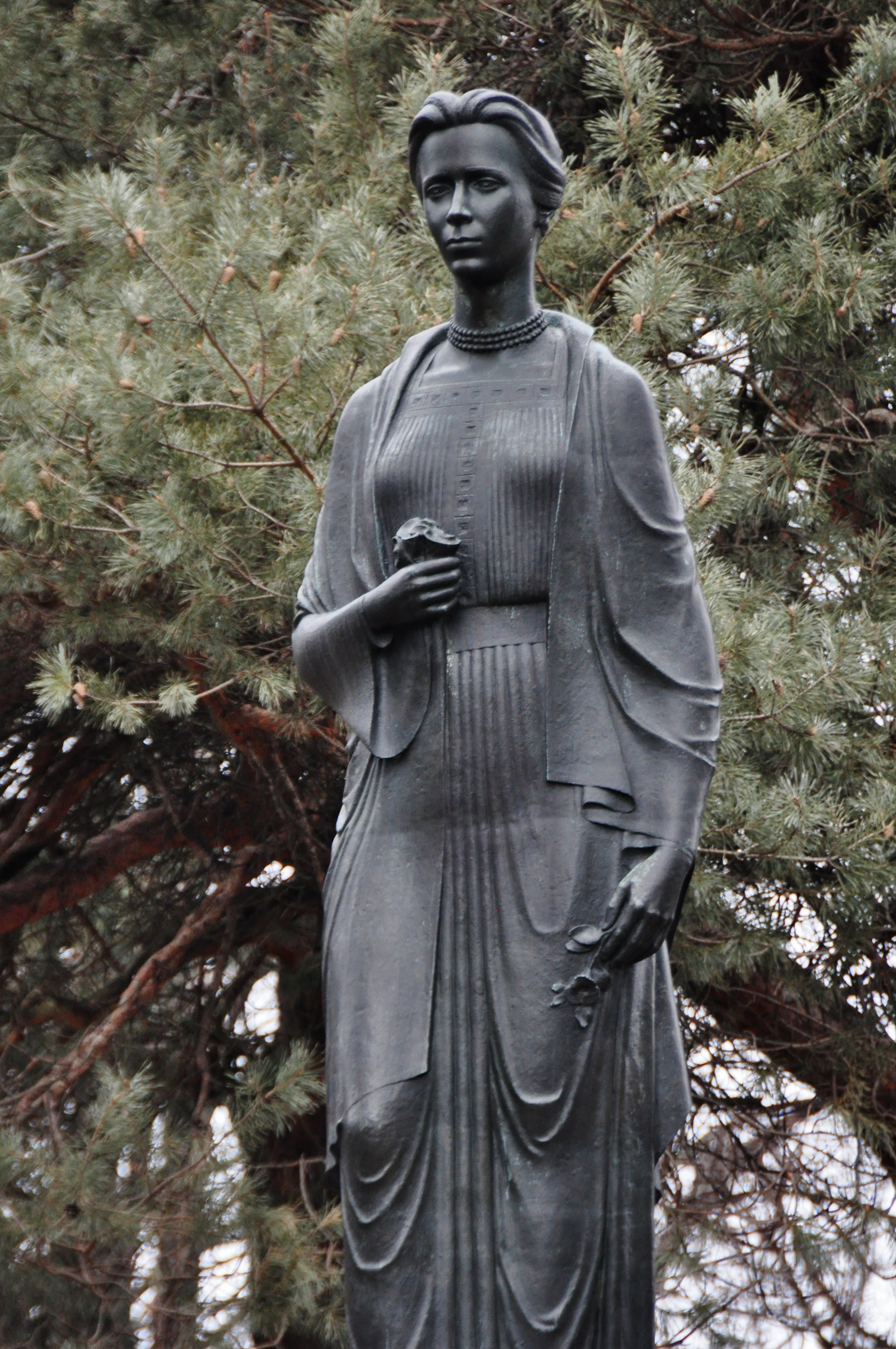 Lesya Ukrainka sculpture by Mykhajlo Chereshniovskyj in High Park, Toronto, Canada